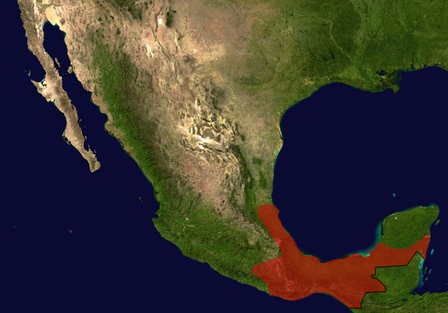 Distribution of Brachypelma vagans in Mexico.